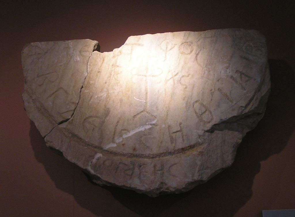 A rock, vertical, ancient sundial from Drama, Greece.